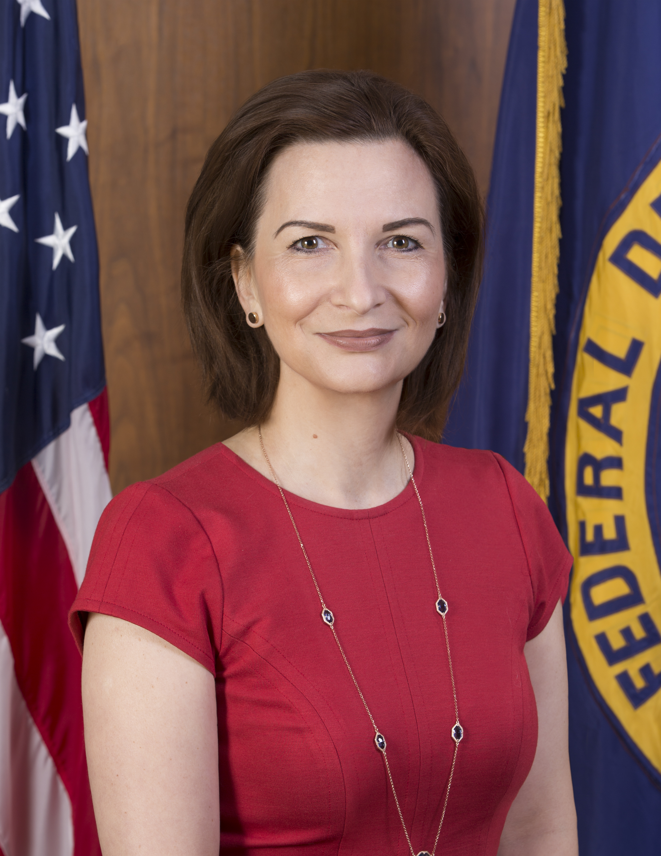 Jelena McWilliams official photo, chairman of the 21st Federal Deposit Insurance Corporation